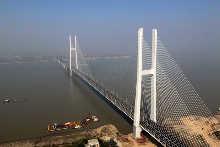 Jingyue Yangtze River Bridge